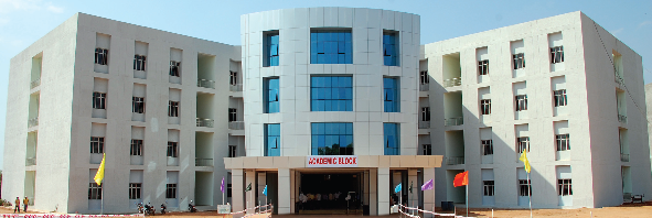 campus of rgukt